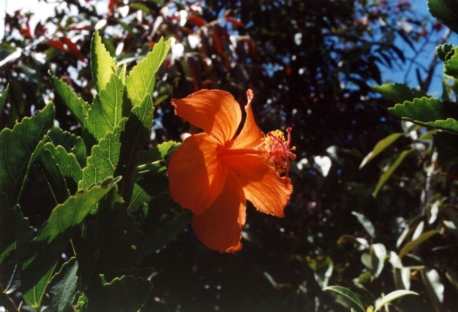 Nualolo Valley, Kauai.